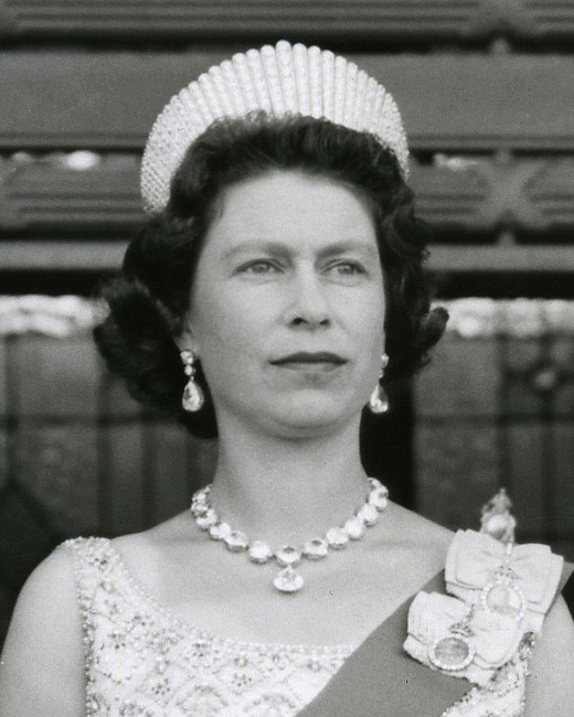 Elizabeth II at the opening of the New Zealand parliament in 1963. She wears the Kokoshnik Tiara and the Coronation Necklace and Earrings.